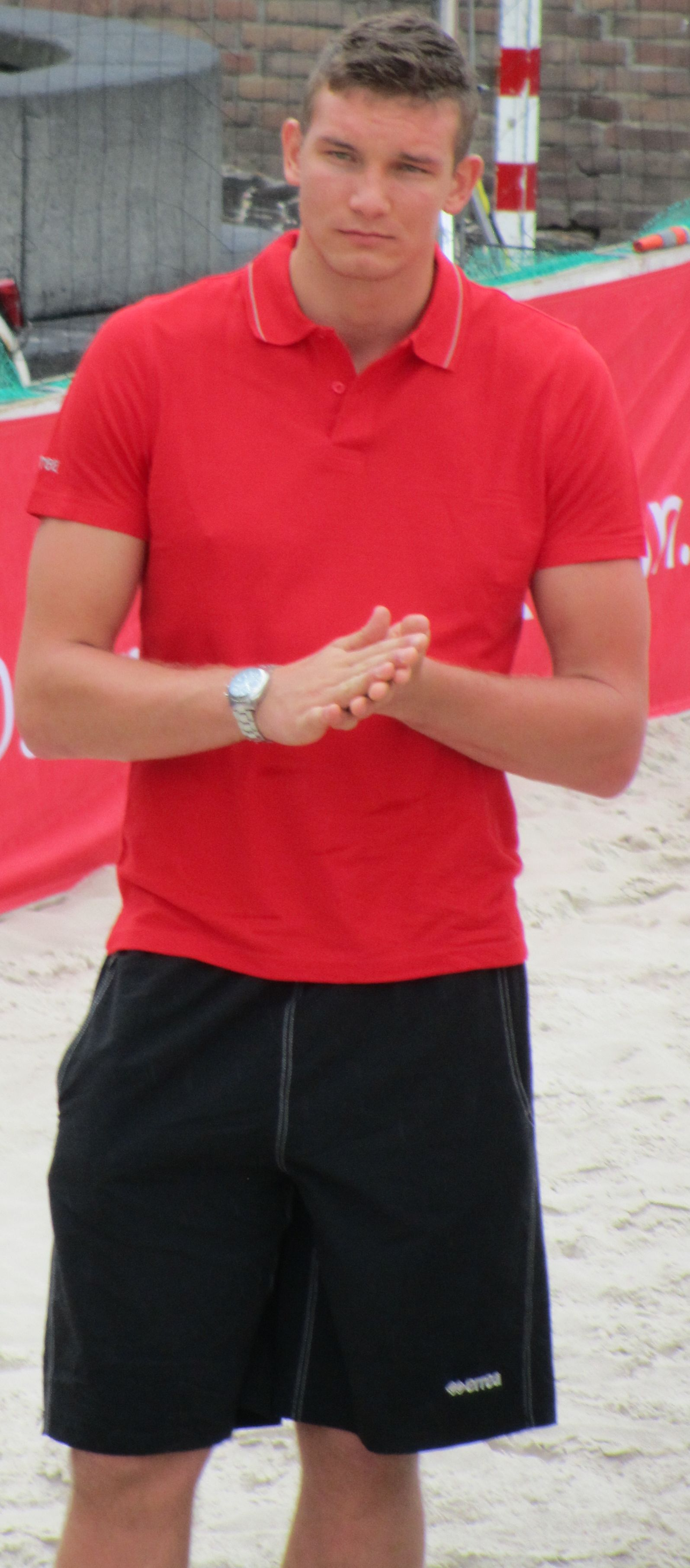 the German volleyball player Christian Fromm at the team presentation of evivo Düren